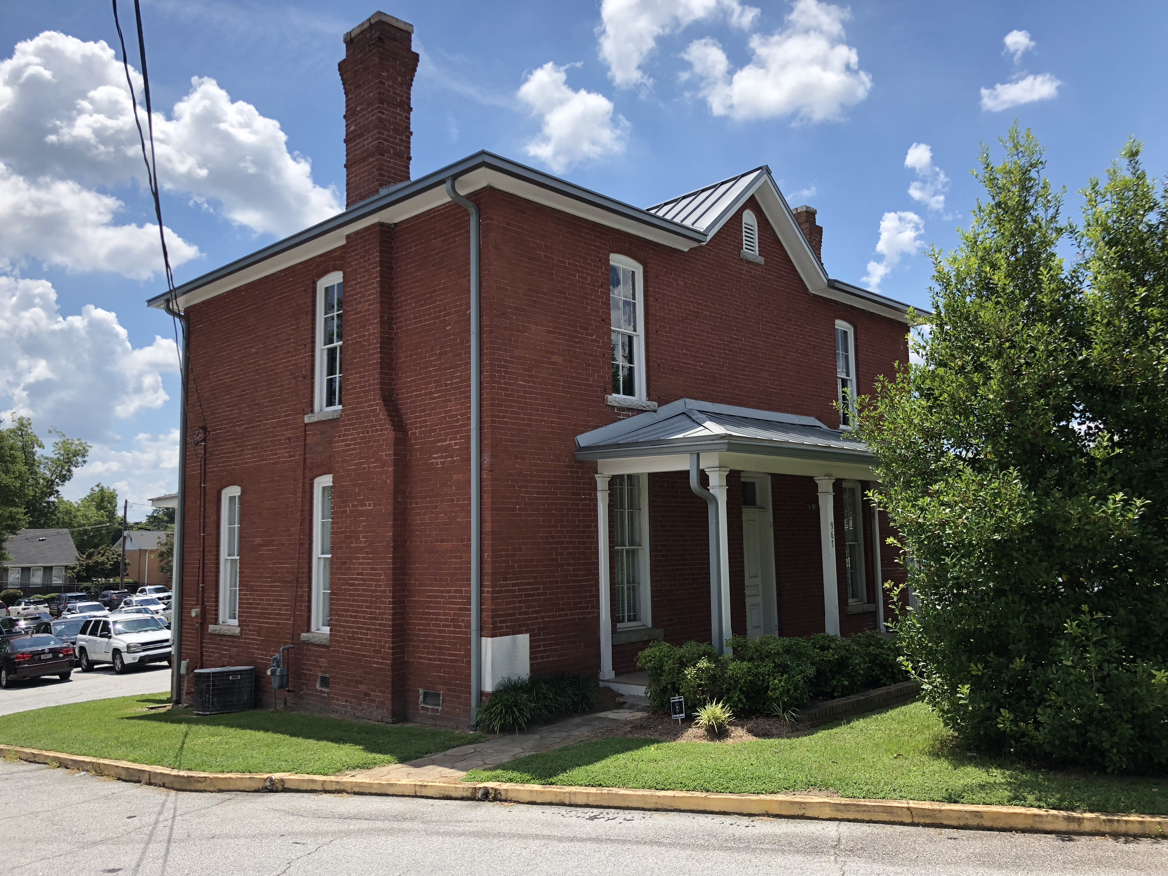 NRHP building Rockdale County Jail in Conyers Georgia, front of the building.